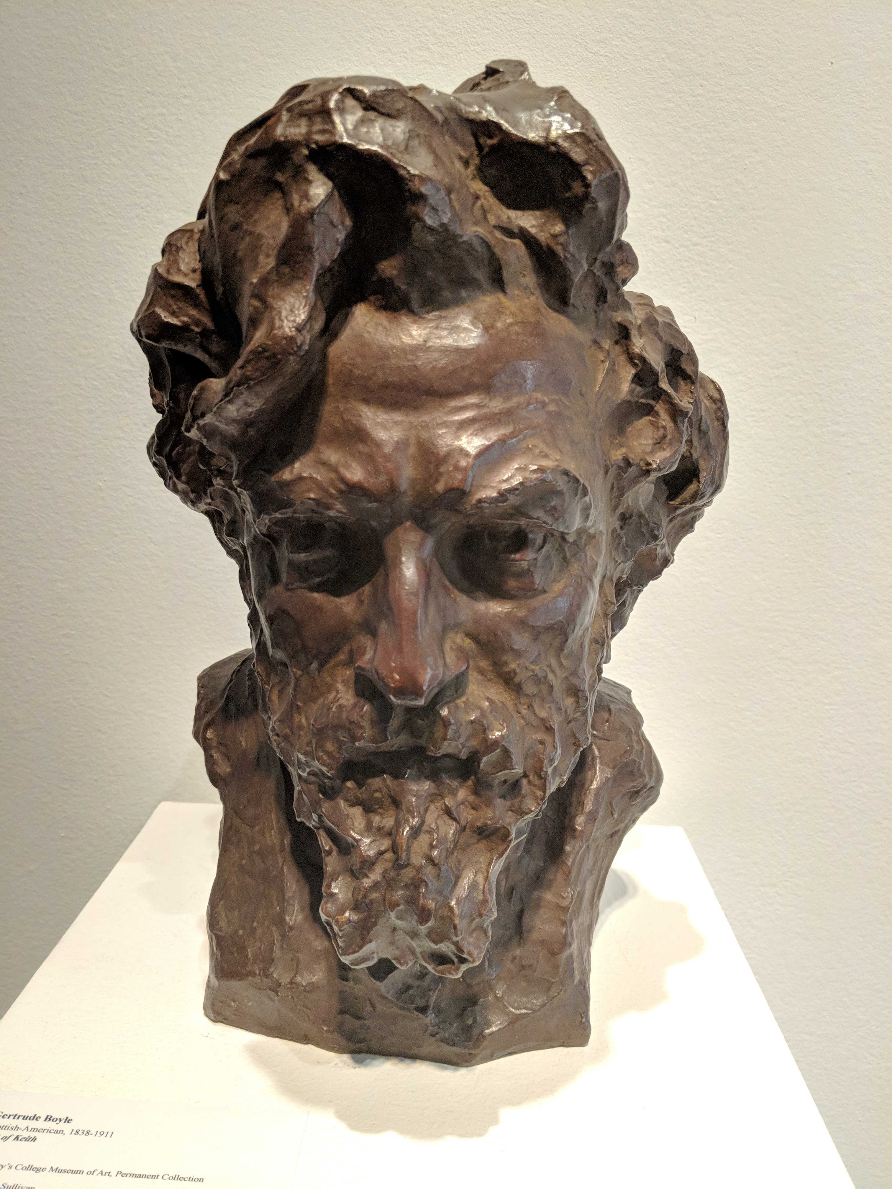 A bust of California painter William Keith by Gertrude Boyle, 1904. On display at the St. Mary's College Museum of Art. Photo by Jim Heaphy.